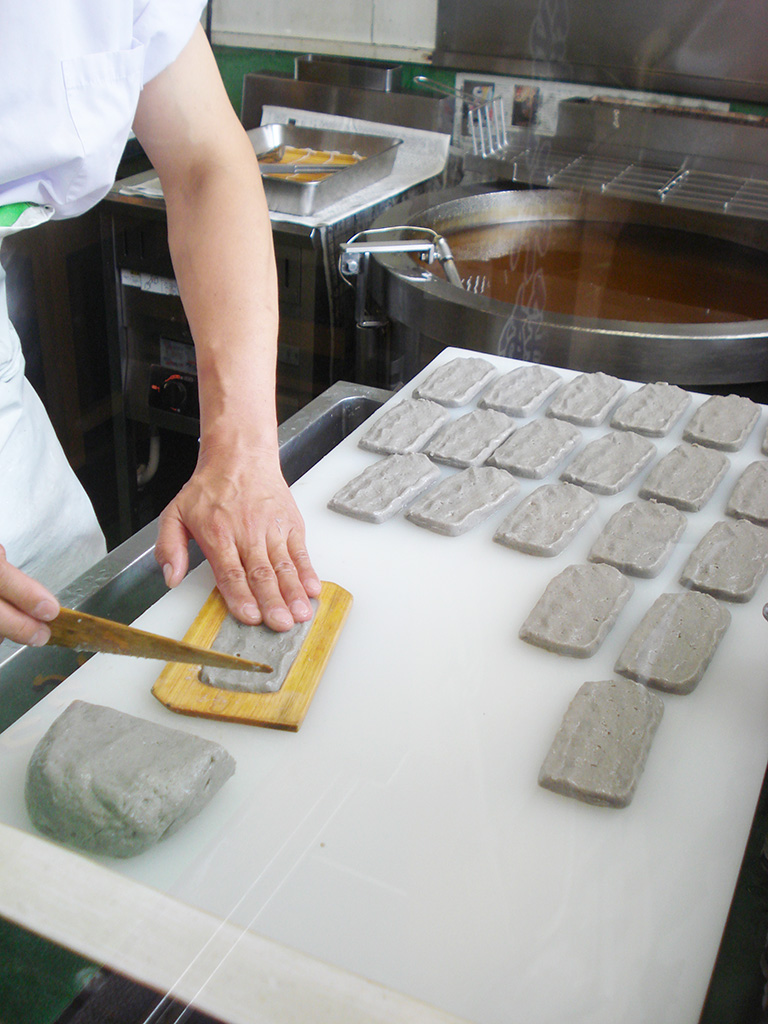 Shaping jakoten patties at Inoue Kamaboko Shop in Matsuyama, Ehime, Japan.